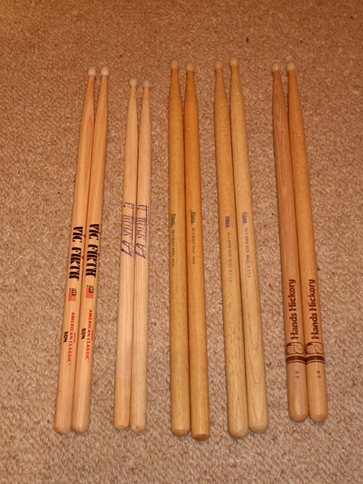 Wooden drum sticks, left to right: Vic Firth American Classic 8DN, LA Special 7A, Fibes 5B-H Heavy Rock, Fibes 4A-H Super Rock, Hickory Hands 2B. Note that neither the length nor weight is consistently represented by the numbers, the 7 being the lightest and the 4 the heaviest, and similarly, the tips are all nylon with similar profiles despite the letters.